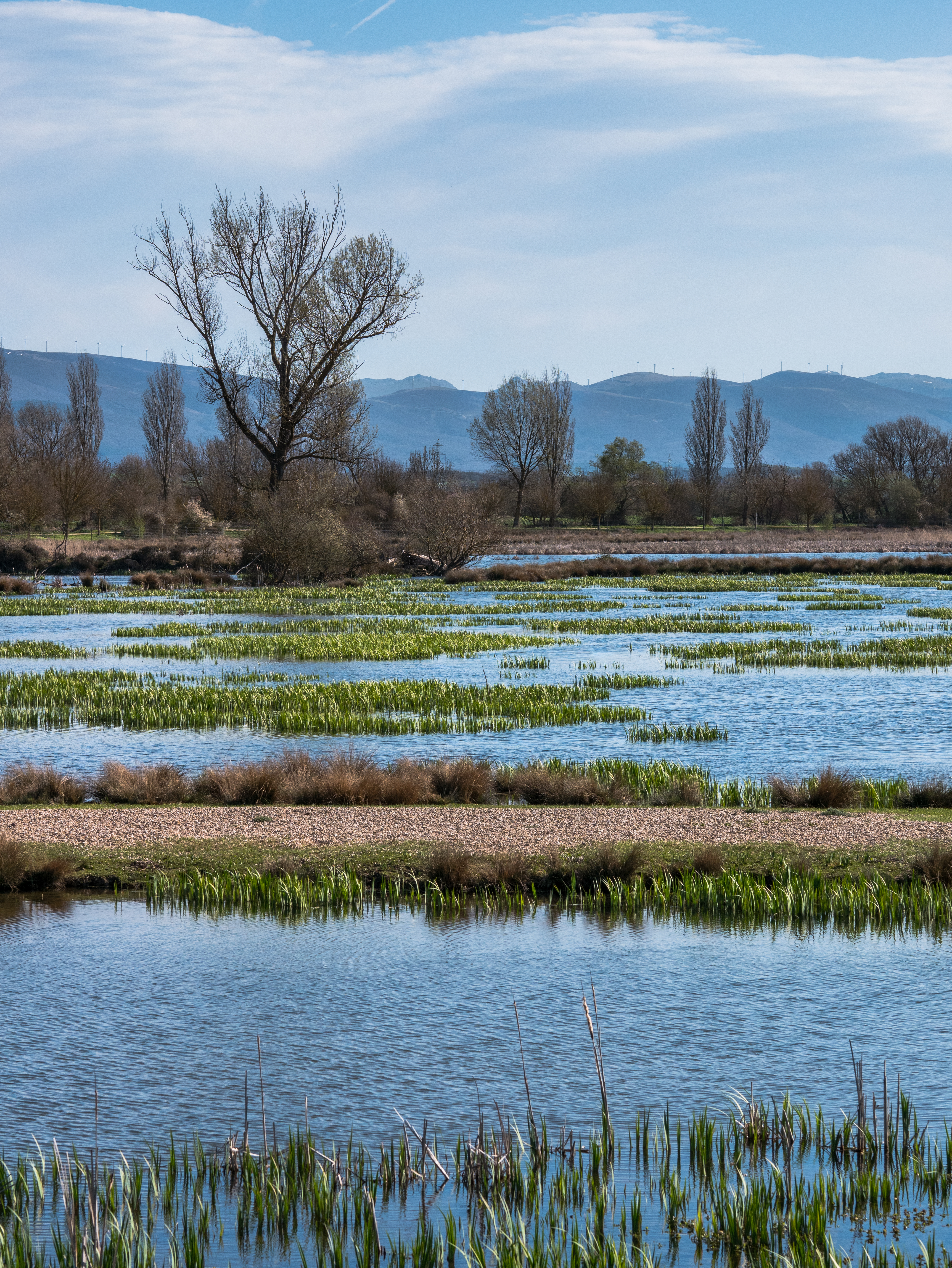 The Salburua Wetlands. Vitoria-Gasteiz, Basque Country, Spain